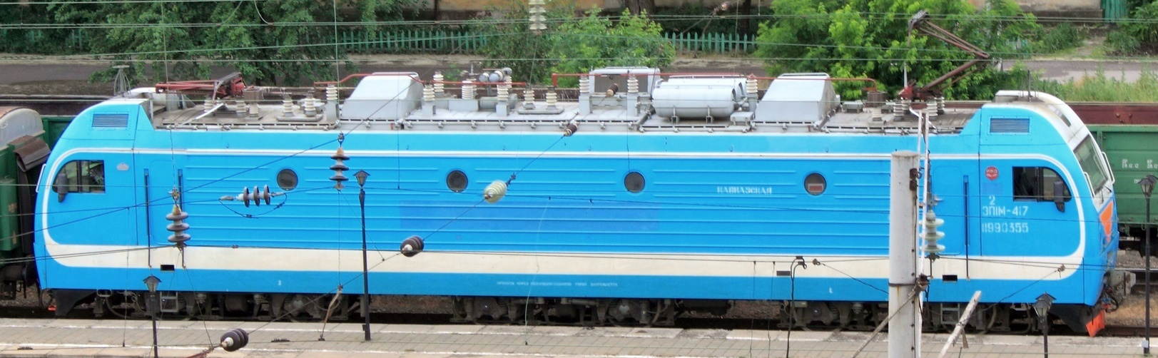 Electric locomotive EP1M (EP1M-417) on station "Taganrog-II"